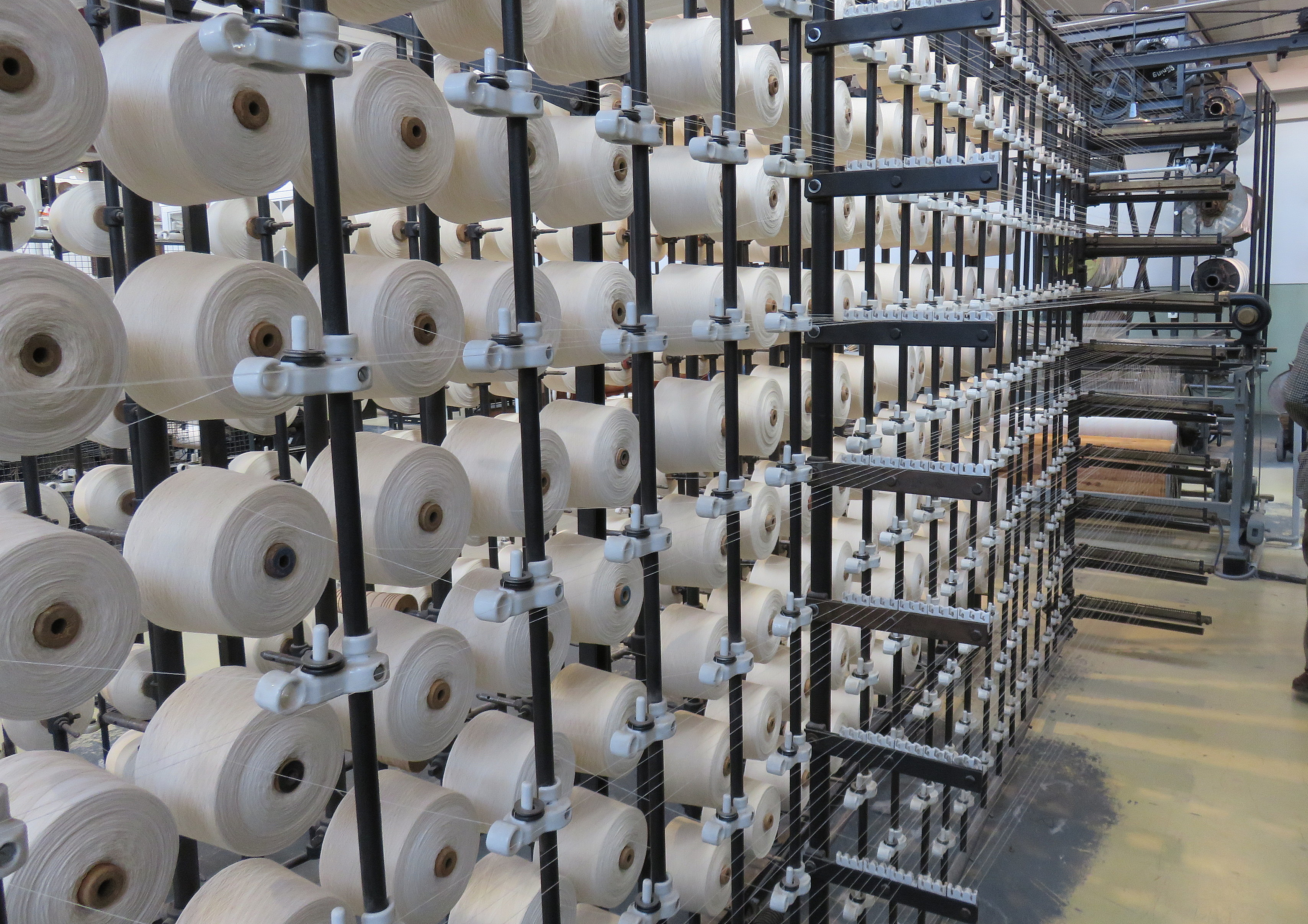 Part of the machine for weaving in the Textilmuseum in Bocholt (DE)